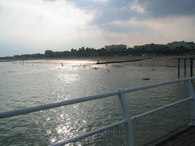 Clacton pier: Picture taken from Clacton Pier. July 2004.